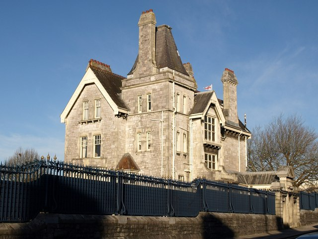 Drake House, HMS Drake The Commodore's House at the Royal Naval Barracks on Saltash Road, "a building unique to naval barracks, and a striking and original composition" . The limestone building, with its steep roof above the tower, was built in 1887. "Baronial Gothic style and some Classical detail".